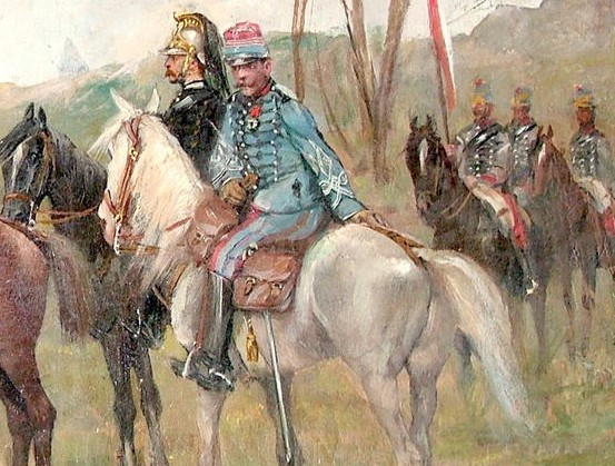 Lieutenant-Colonel Paul-Gustave Herbinger in Tonkin, January 1885. Detail from a painting by Albert Bligny of a review of French troops in Tonkin by General François de Négrier.